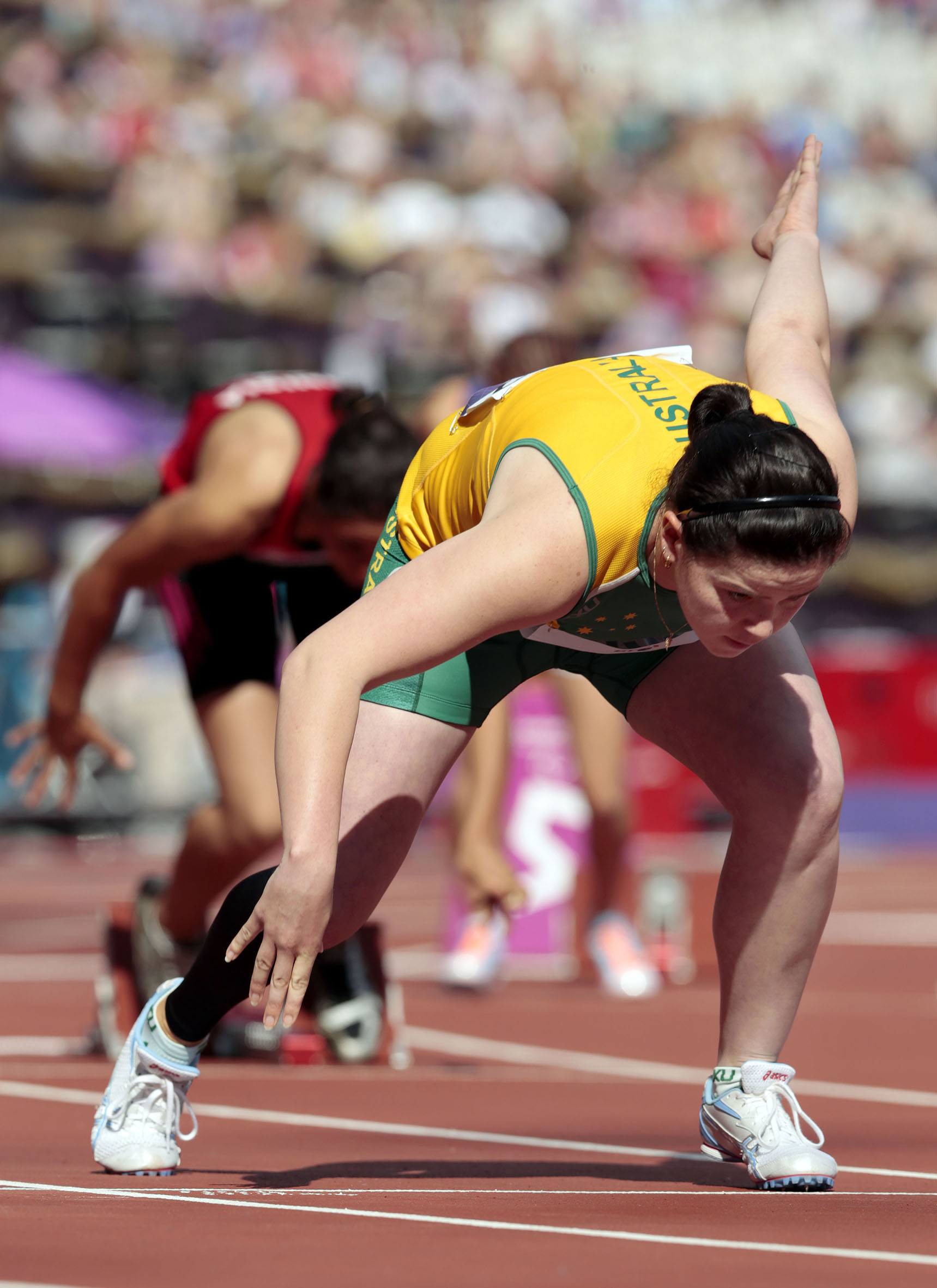 Photograph of Australian Paralympic team member Jodi Elkington at the 2012 Summer Paralympic Games in London